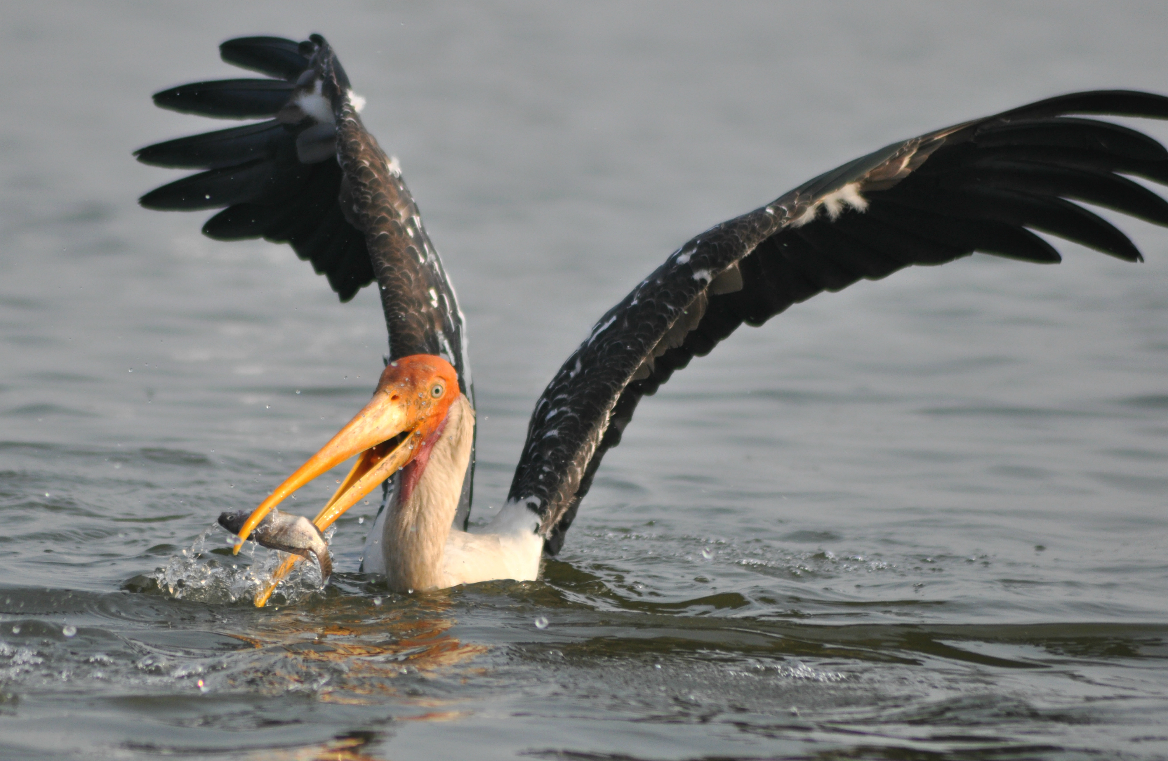 Painted Stork